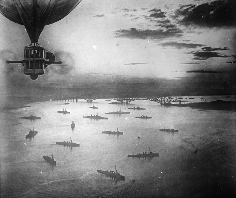 An aerial view of a portion of the Grand Fleet at anchor in the Firth of Forth, taken from the British Airship R. 9.